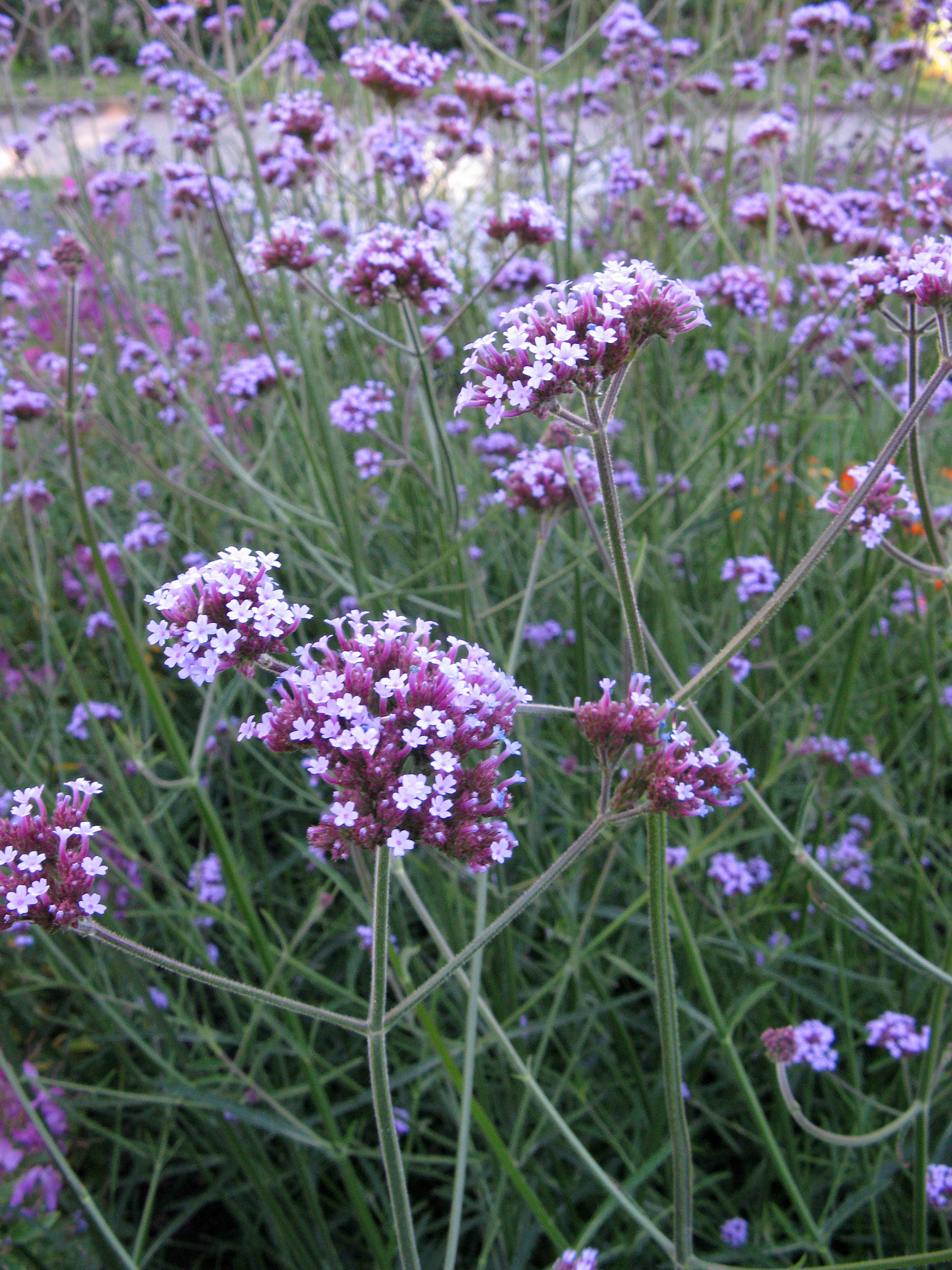 Verbena bonariensis blooms in a flower bed at the Botanical Gardens, Lund, Sweden.